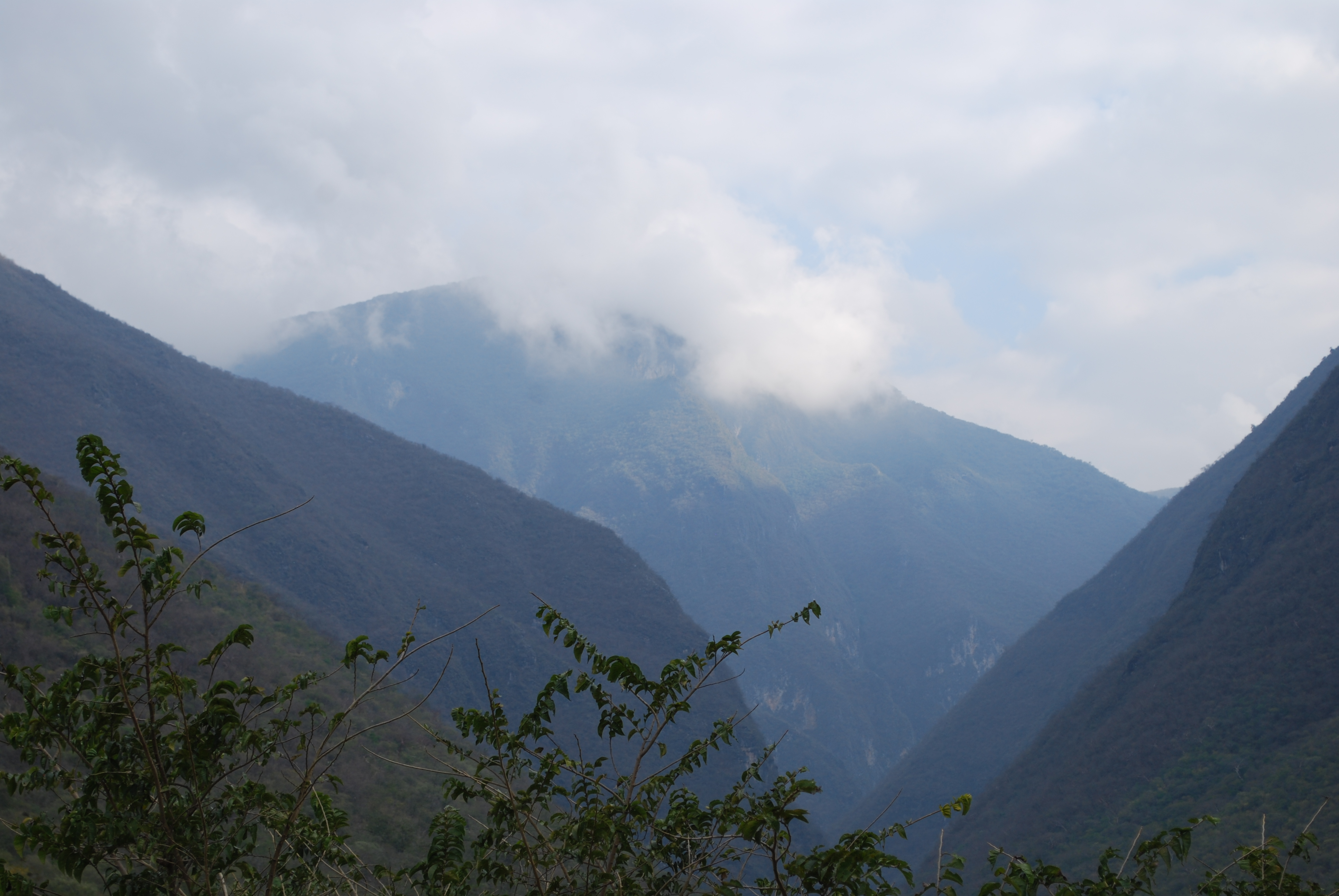 Mountains by the junction of the Arroyo and Jalpan Rivers in Arroyo Seco, Querétaro